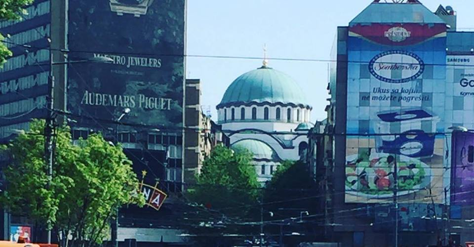 View of the church of St. Sava from the Slavia square